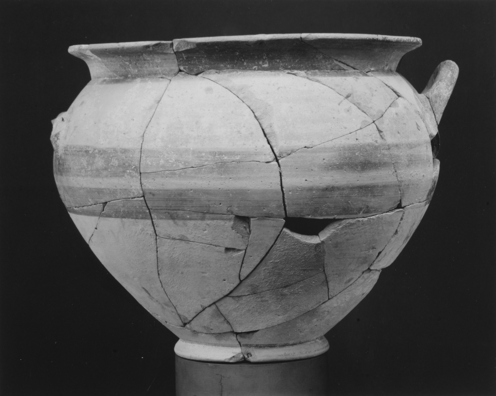 Italic-Native, Sicilian (Centuripe); Stamnos; Vases; Decorated with horizontal glaze stripes. One handle missing.